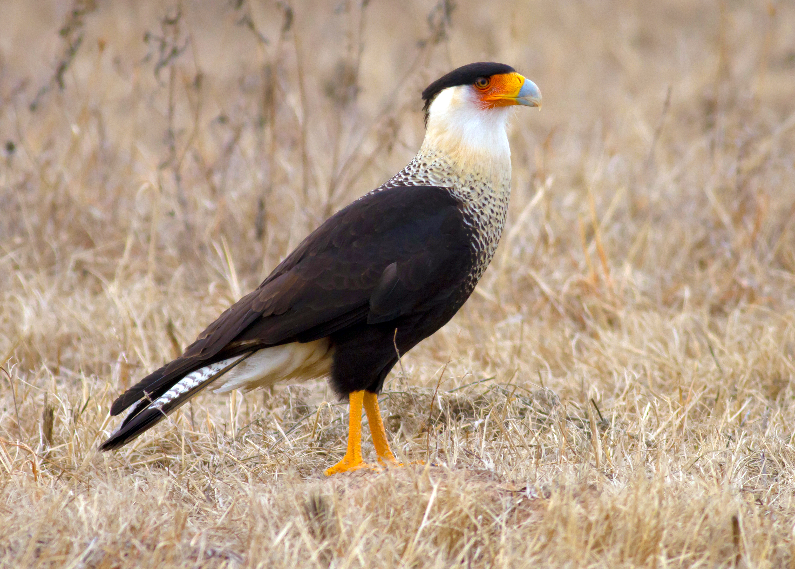 Caracara cheriway, Munson, Texas, USA